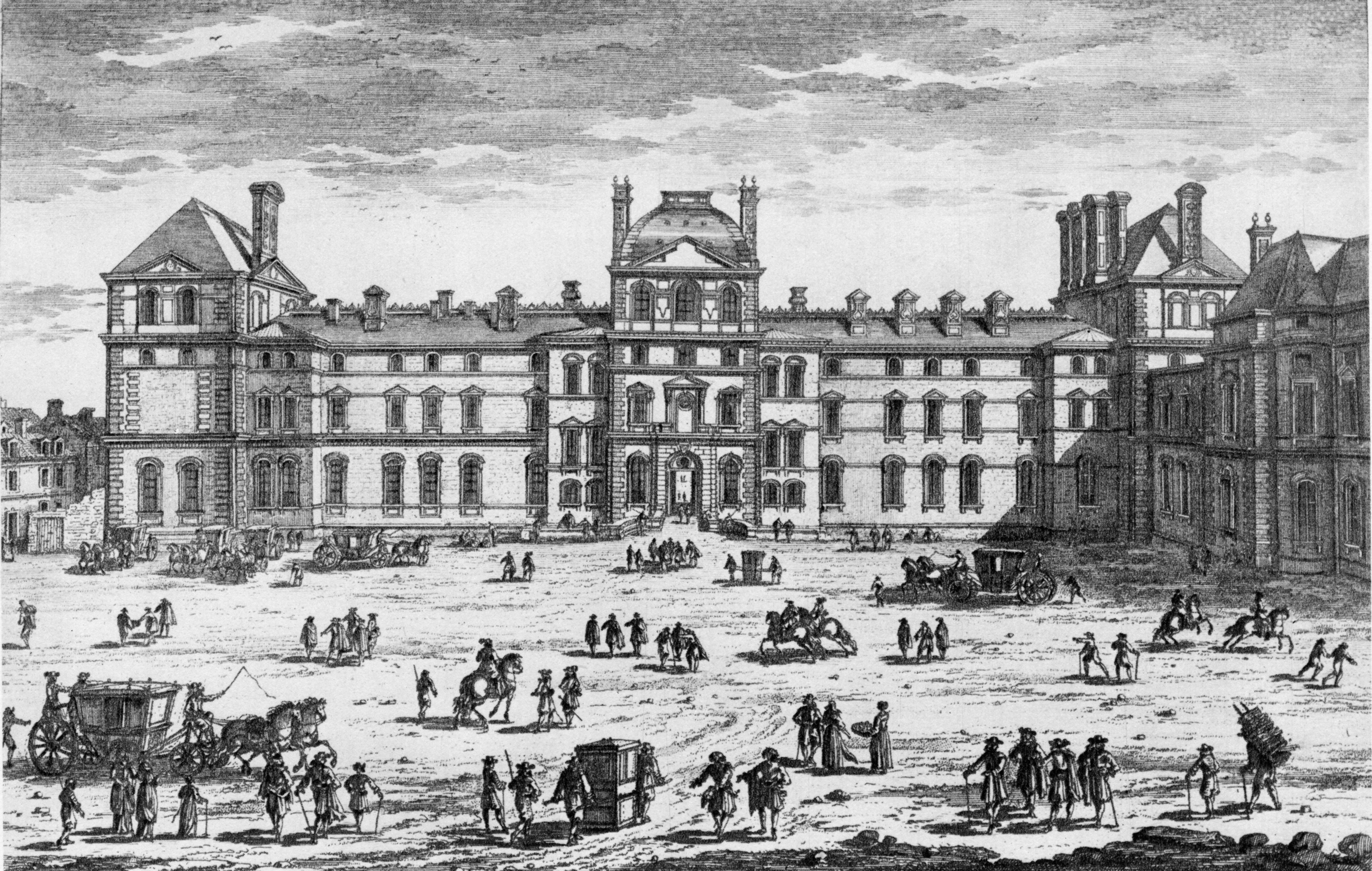 West facade of the Louvre after the additions designed by the architect Jacques Lemercier